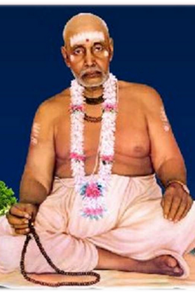 Prahlad Maharaj Ramdasi